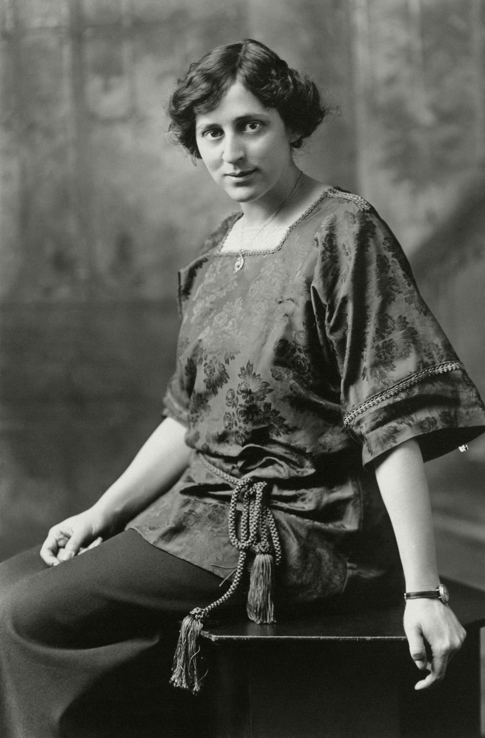 Photograph of Crystal Eastman, during the time she was married to Wallace J. Benedict (between 1911–1916). 4 x 6 in. Formal portrait, three-quarter-length, seated, Crystal Eastman Benedict [sic], facing left with upper body and head turned toward camera, wearing square-necked blouse cinched at waist with tasseled-rope belt, watch on left wrist, and necklace. From the records of the National Woman's Party Caption (insofar as the Library of Congress quotes) follows: "Mrs. Crystal Eastman Benedict [Her name during her brief marriage] of New York is a member of the Executive Committee of the Congressional Union for Woman Suffrage. Mrs. Benedict is a graduate of Vassar College and of the New York Law University. She was secretary of the New York State Commission which investigated the employers'..." Cropped version of the photograph published in The Suffragist, 3, no. 19 (May 8, 1915): 6, and The Suffragist, 4, no. 52 (Dec. 23, 1916): 5.